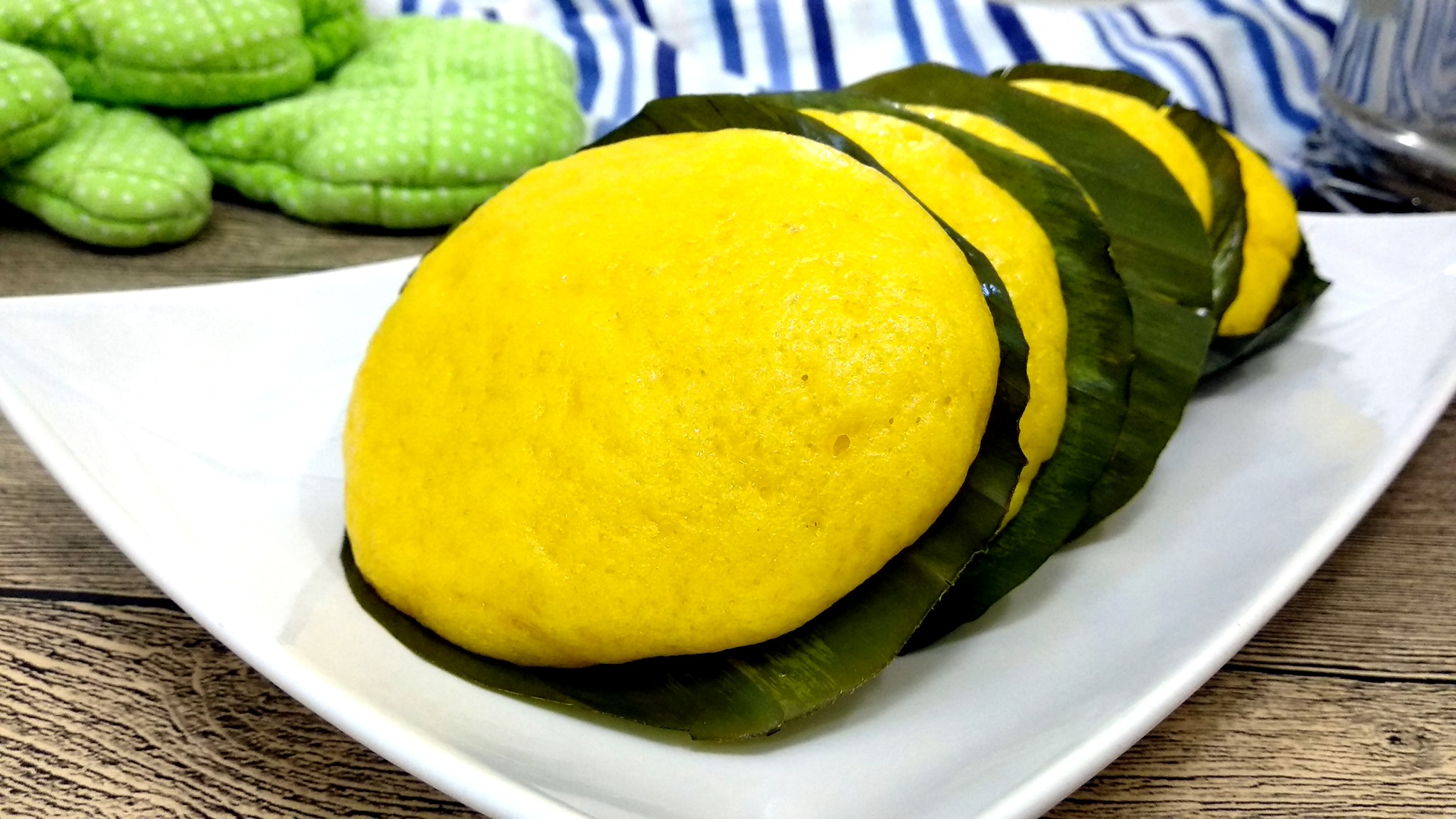 This is a variation from the traditional red hee pan, it is made with pumpkin.